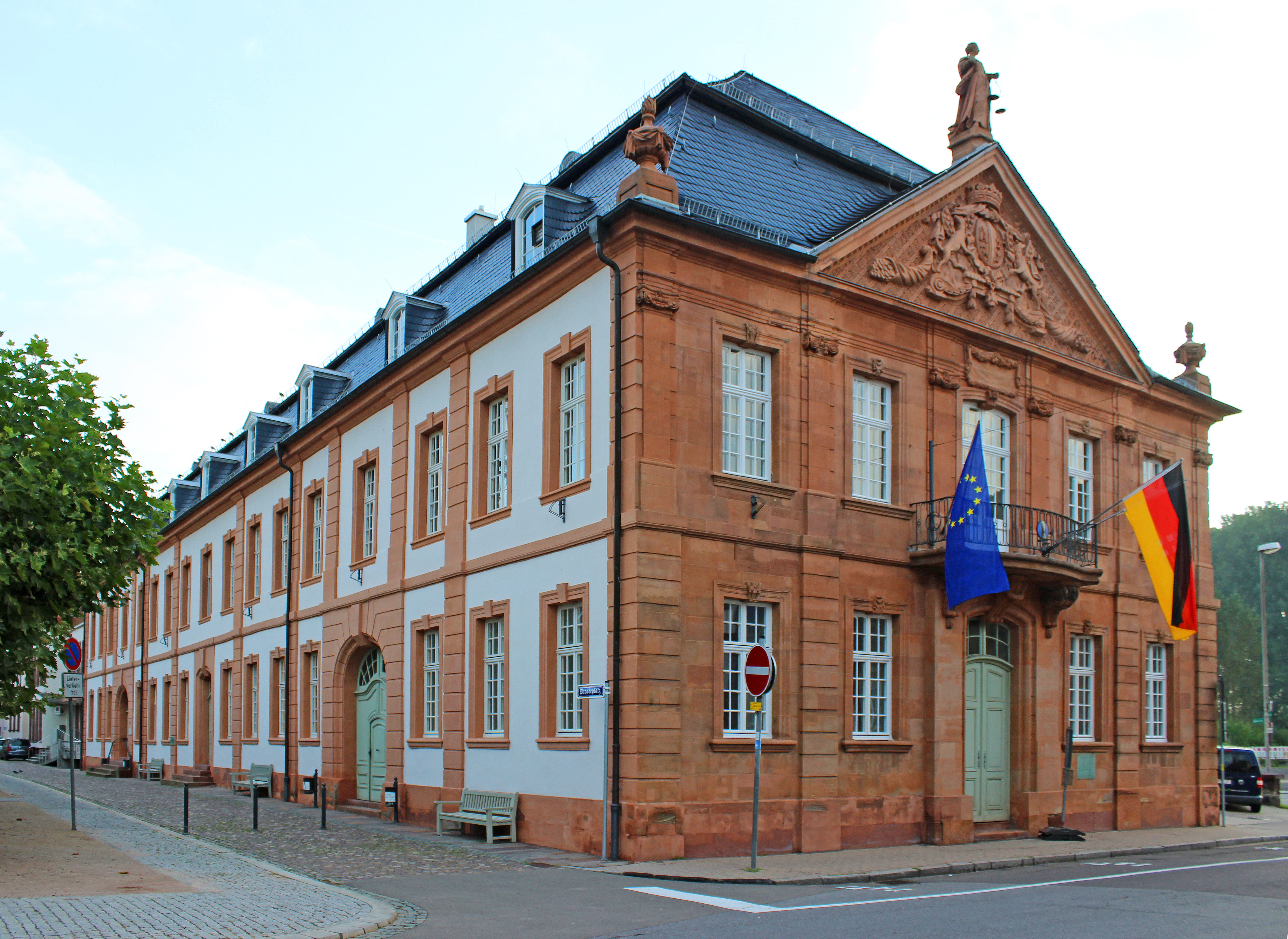 Townhall Blieskastel, Saarpfalz-Kreis, Saarland